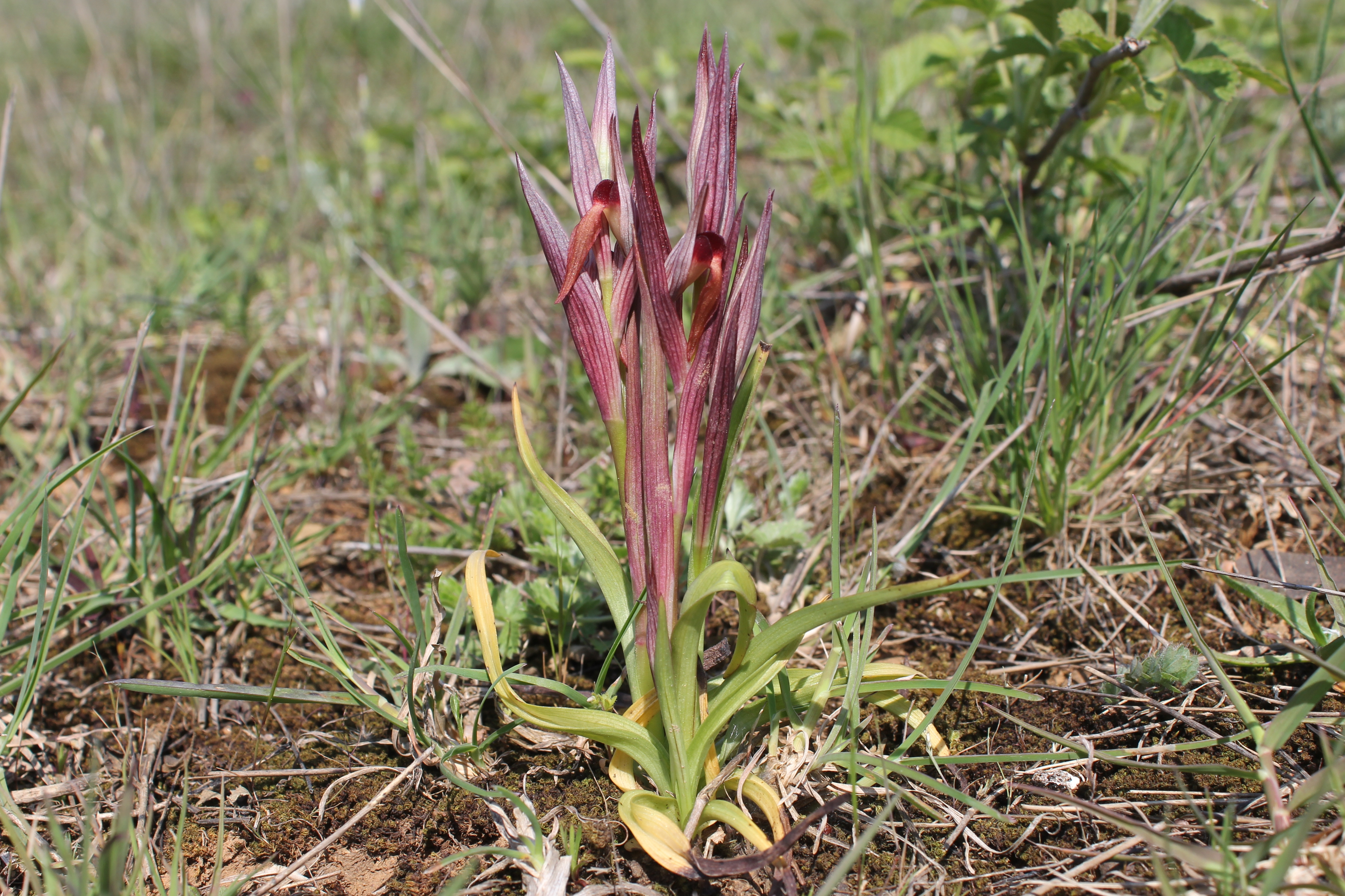 Serapias bergonii scape